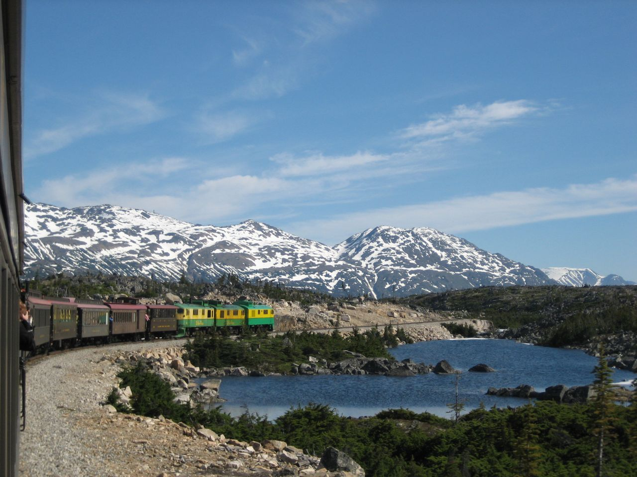 Front of the White Pass and Yukon Railroad train